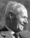 Fritz Schiess-Forrer (1880-1978) was a Swiss inventor and businees man. He invented the clean cutting blanking machine and he was founder of the Fritz Schiess AG.